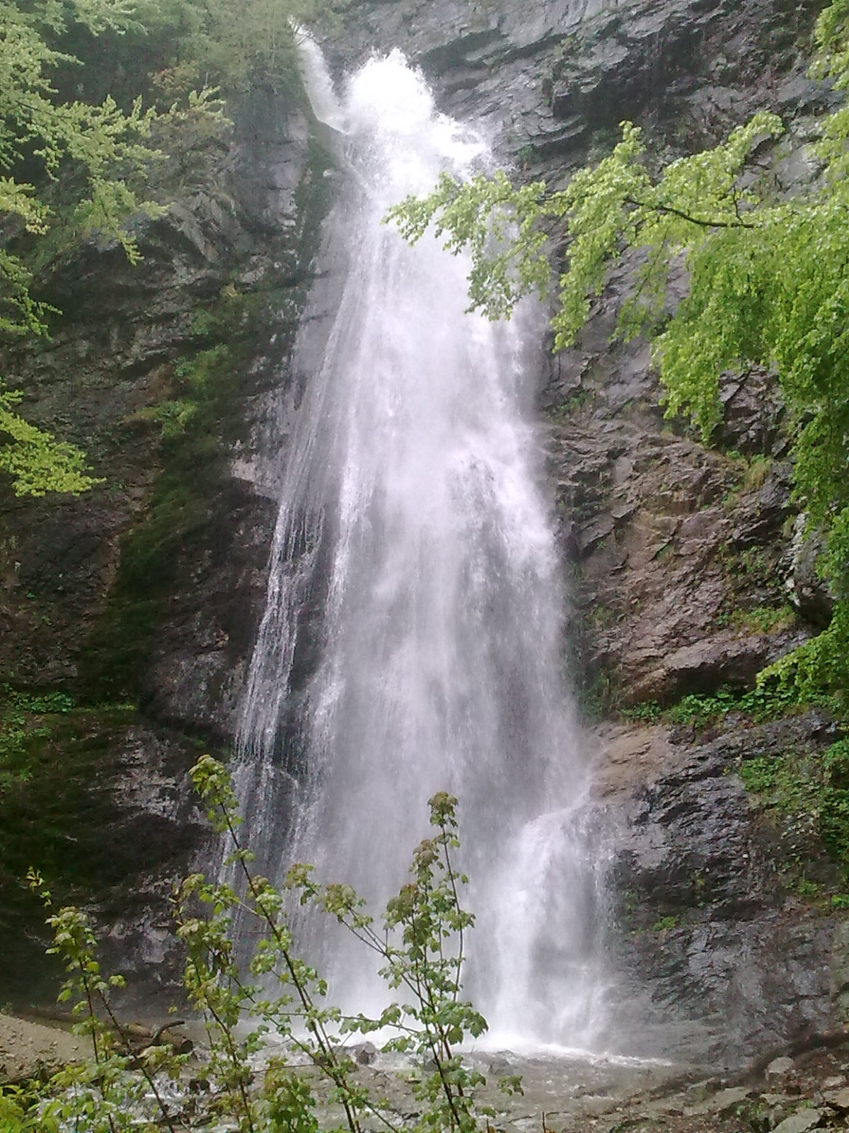 Sutovo waterfall